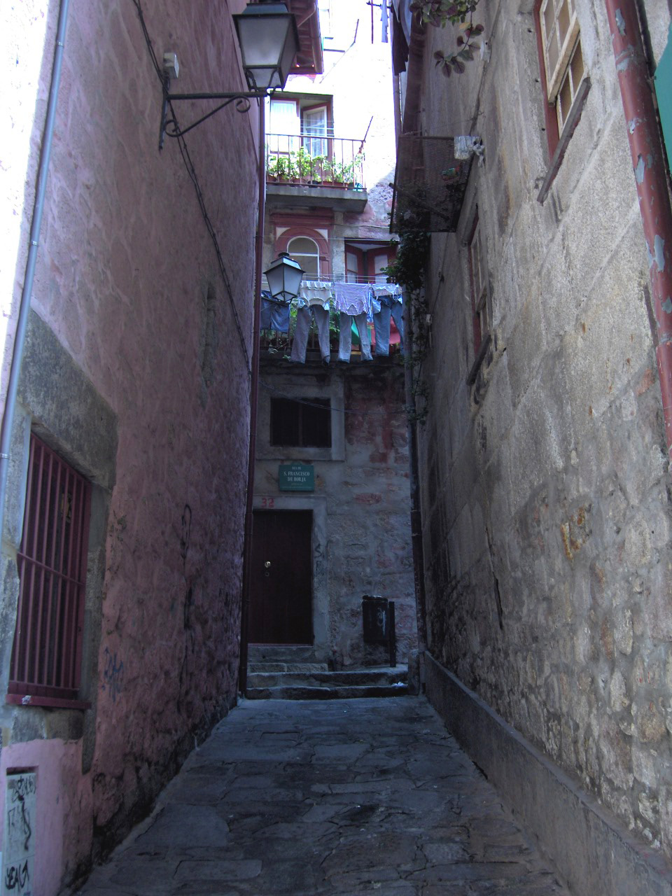 Narrow street in the Ribeira, an old district in Porto, Portugal